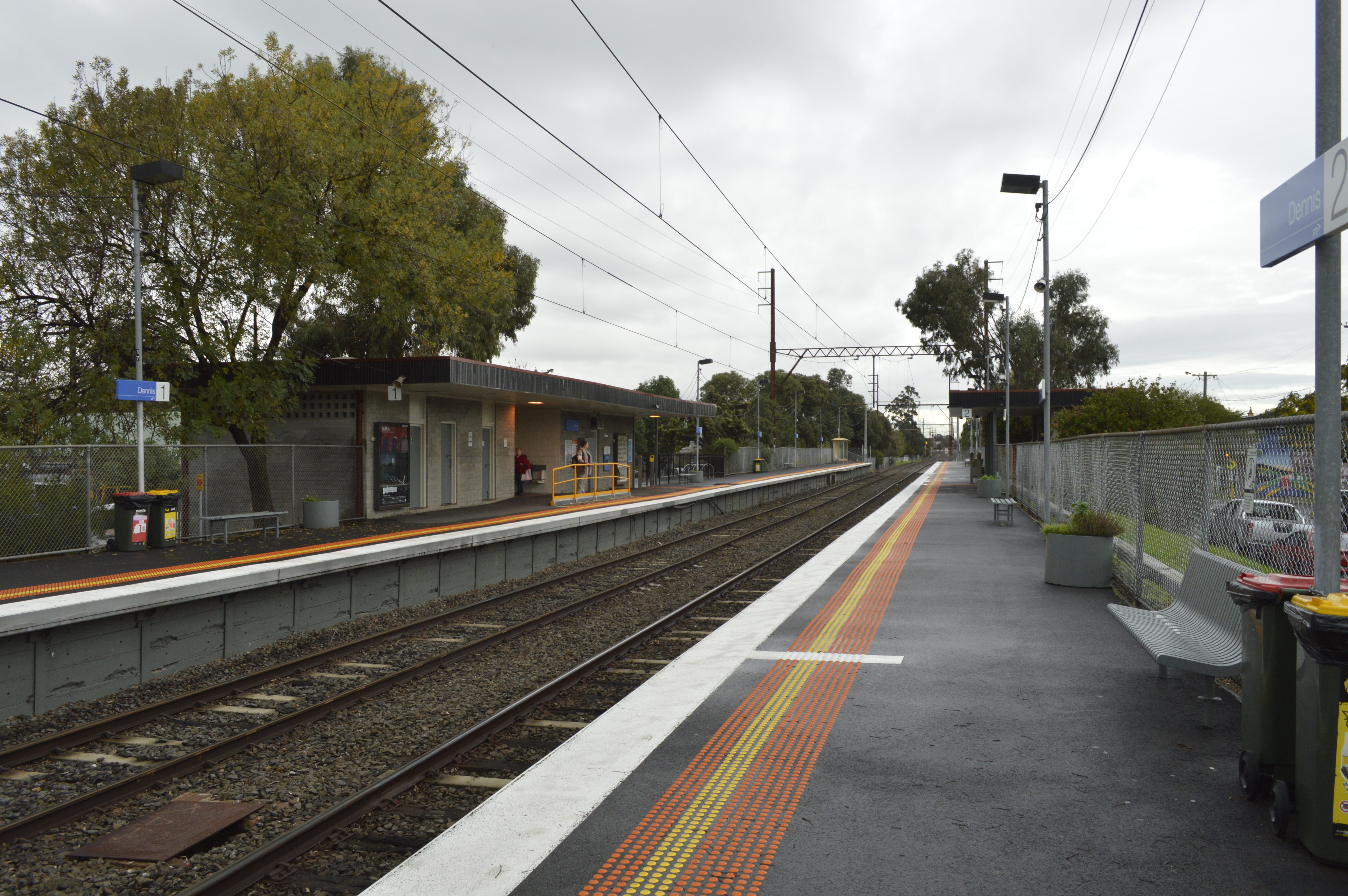 View from platform 2 looking towards Melbourne.